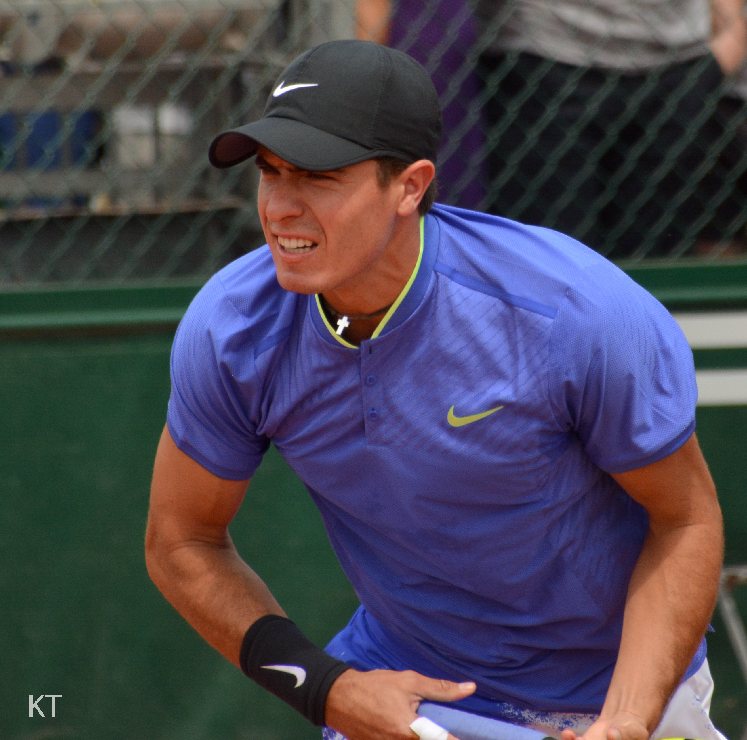 Ernesto Escobedo at Roland Garros 2017